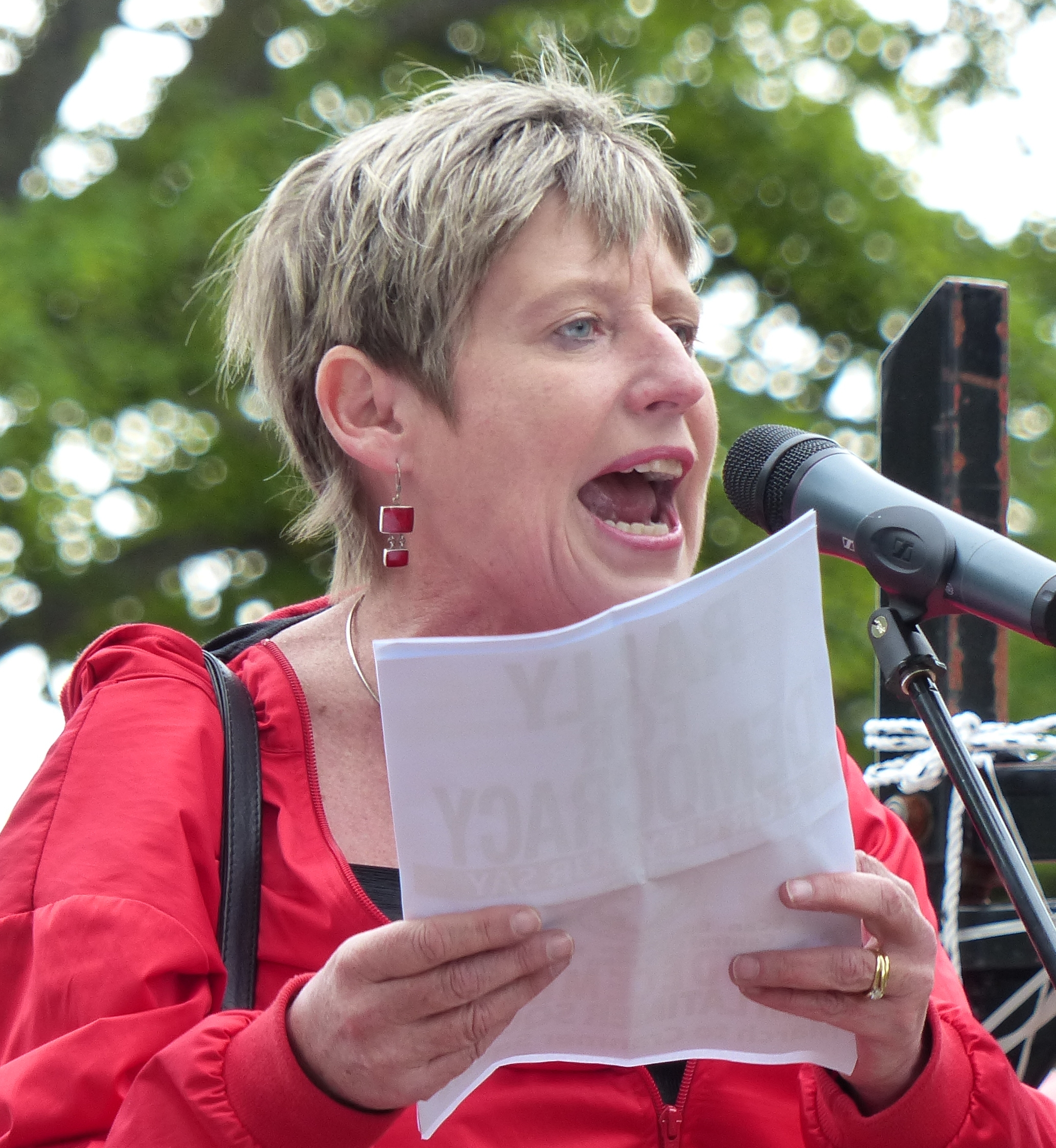 Lianne Dalziel, Labour Party MP, addresses protesters in Latimer Square in December 2012.